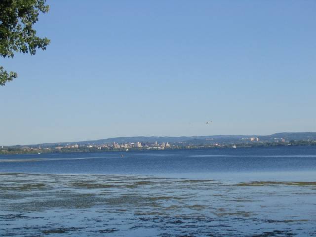 Description from original English Wikipedia uploader: "photo of Onondaga Lake with the Syracuse skyline in the background, taken by me on July 2, 2005"